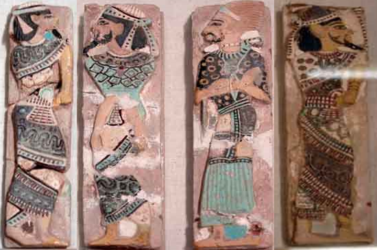 Canaanites and Shasu Leader captives from Ramses III's tile collection.